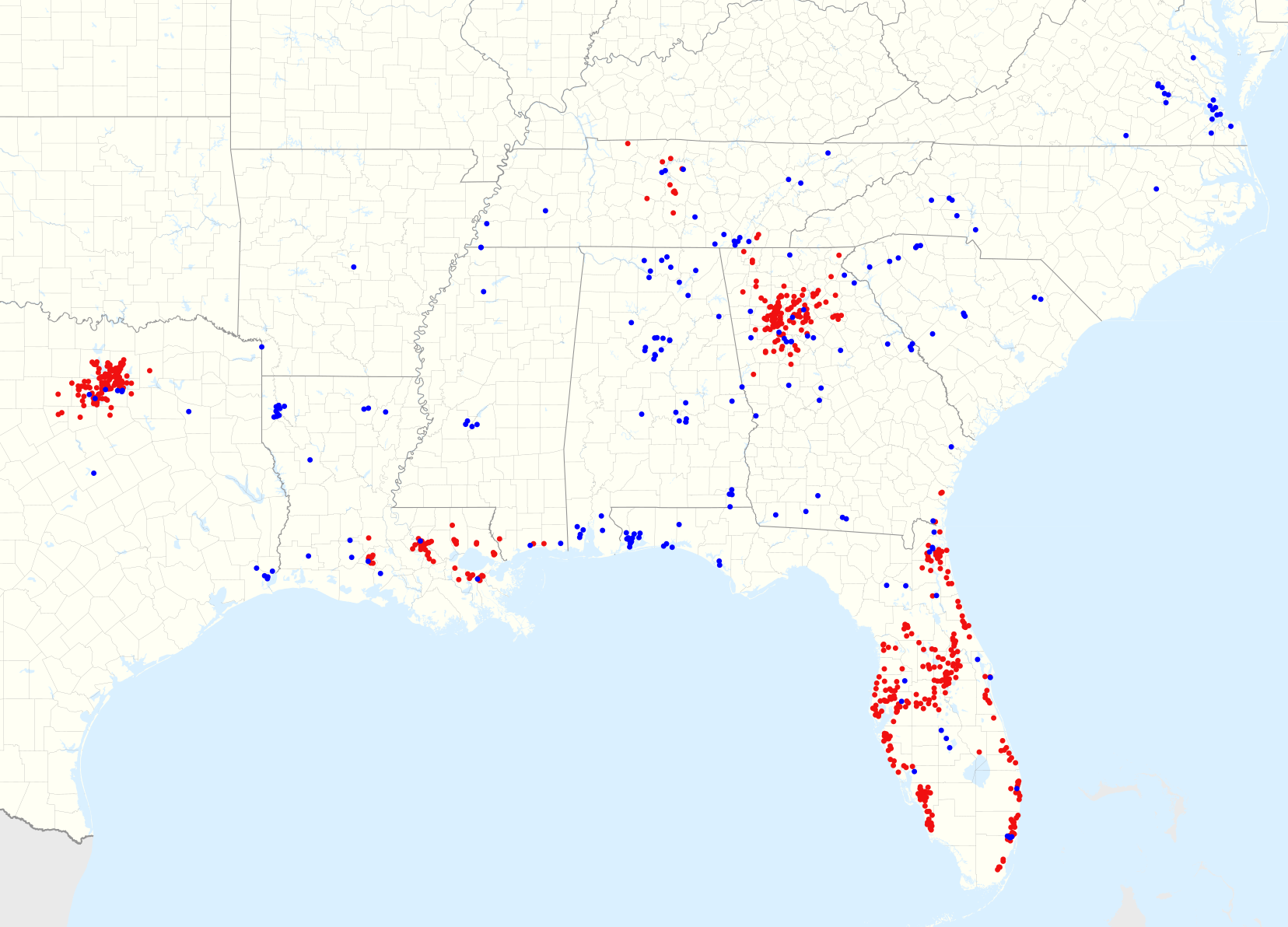 Geographic footprint of RaceTrac's 550 & RaceWay's 251 locations as of 2020 January